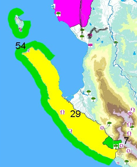 Based on File:Protected Areas of Albania.jpg